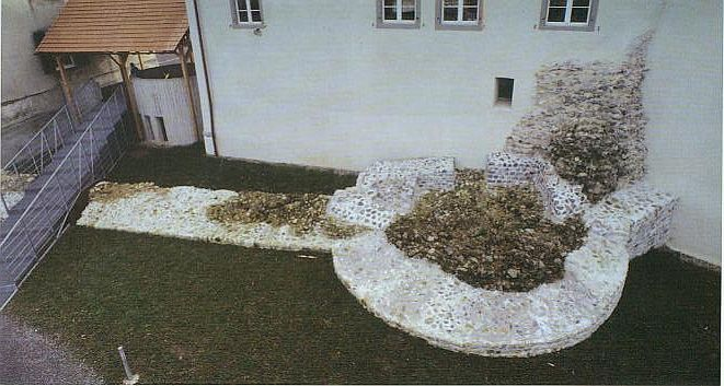 Tower I + northwall, late roman castle Pfyn/Ad Fines (CH).